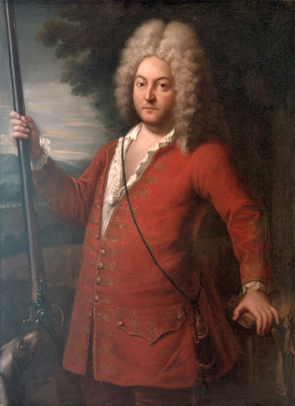 Portrait of Samuel Bernard, château de Chenonceau